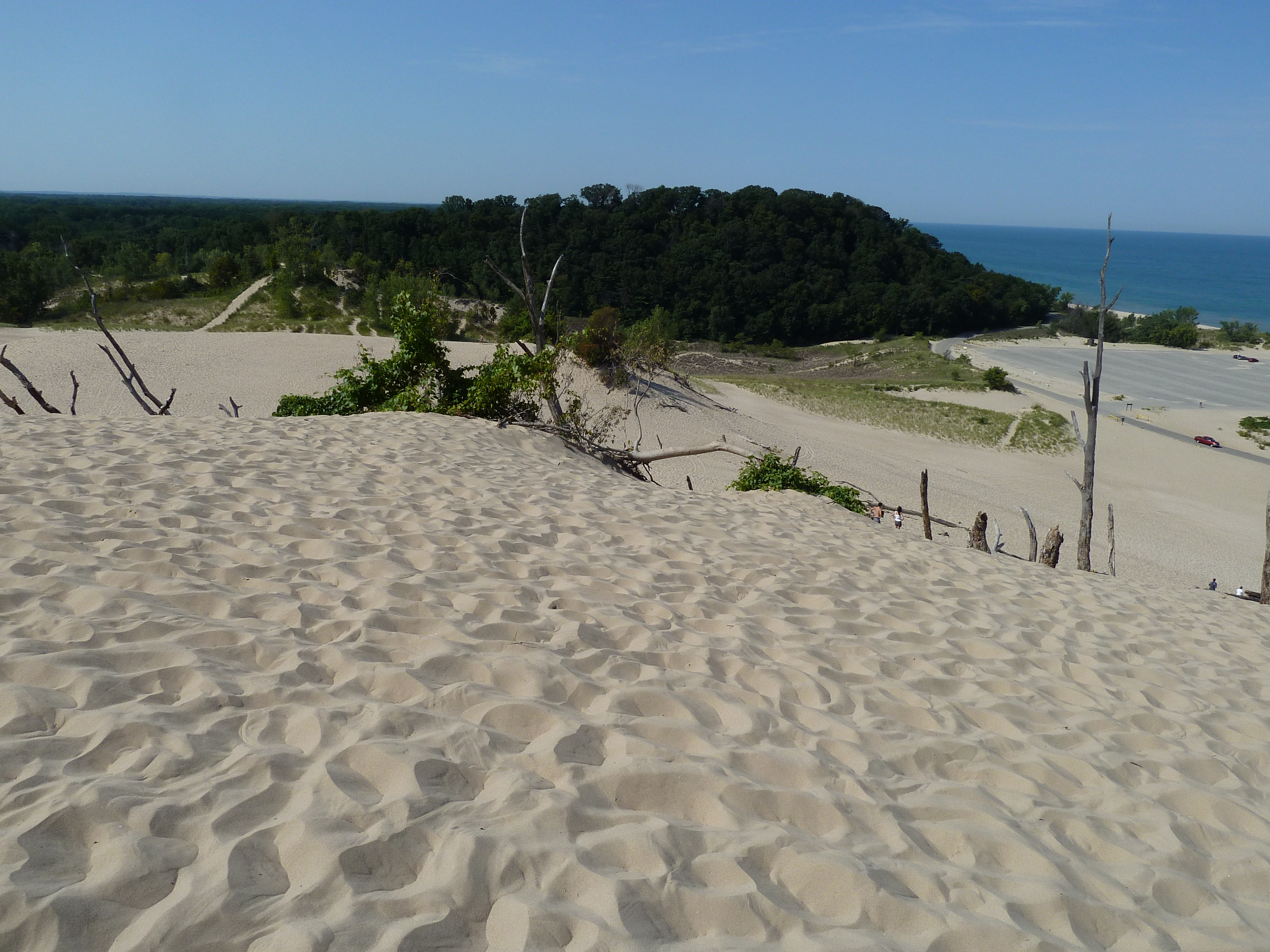 View from a dune in the Warren Dunes State Park on Lake Michigan.